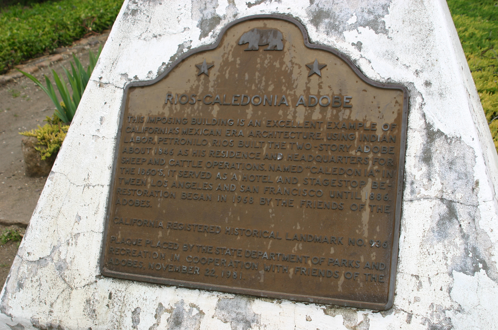 California Historical Landmark plaque at the Rios-Caledonia Adobe